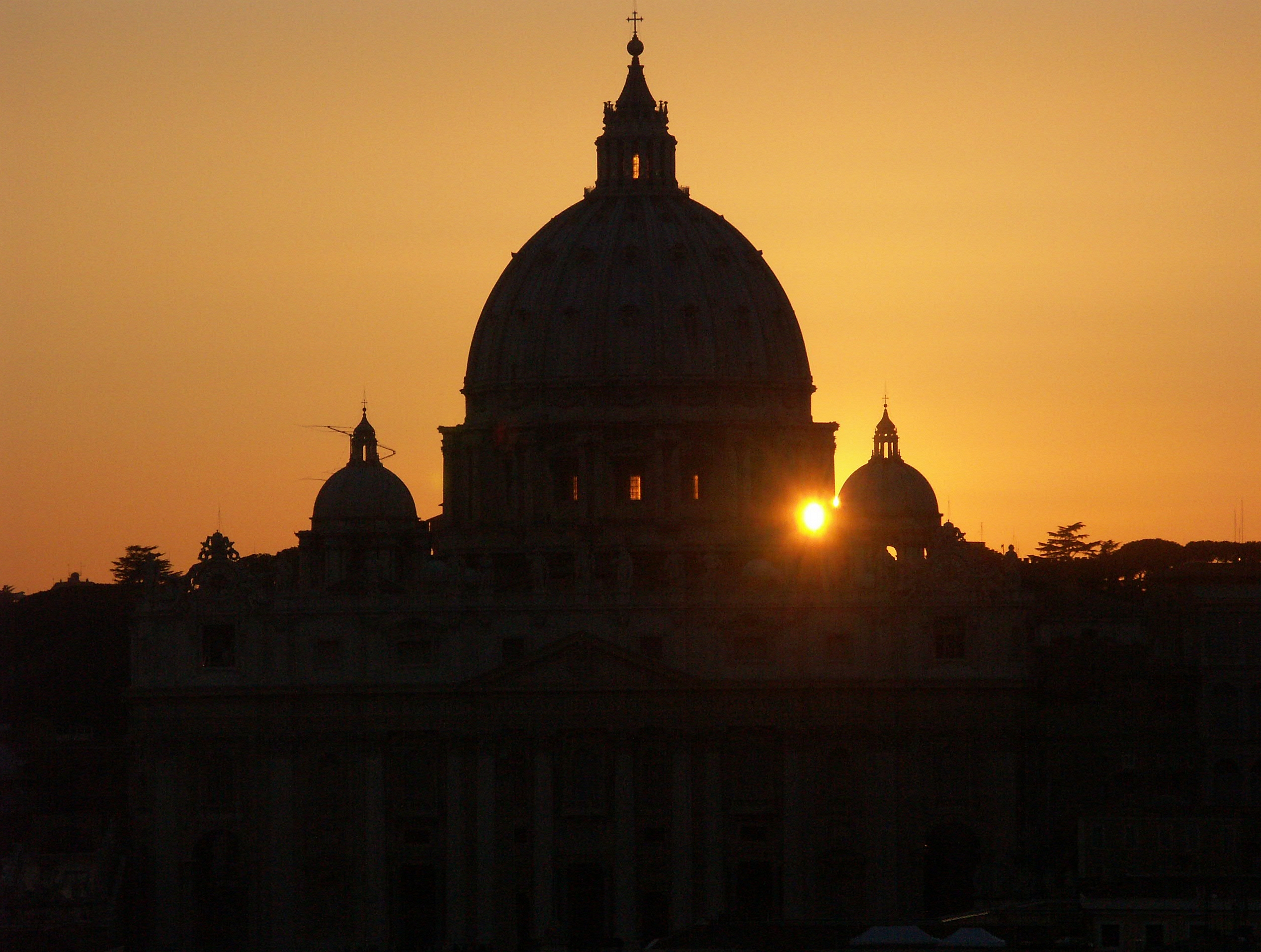 Rome, St. Peter's Basilica at sundown (view from Castel Sant'Angelo)